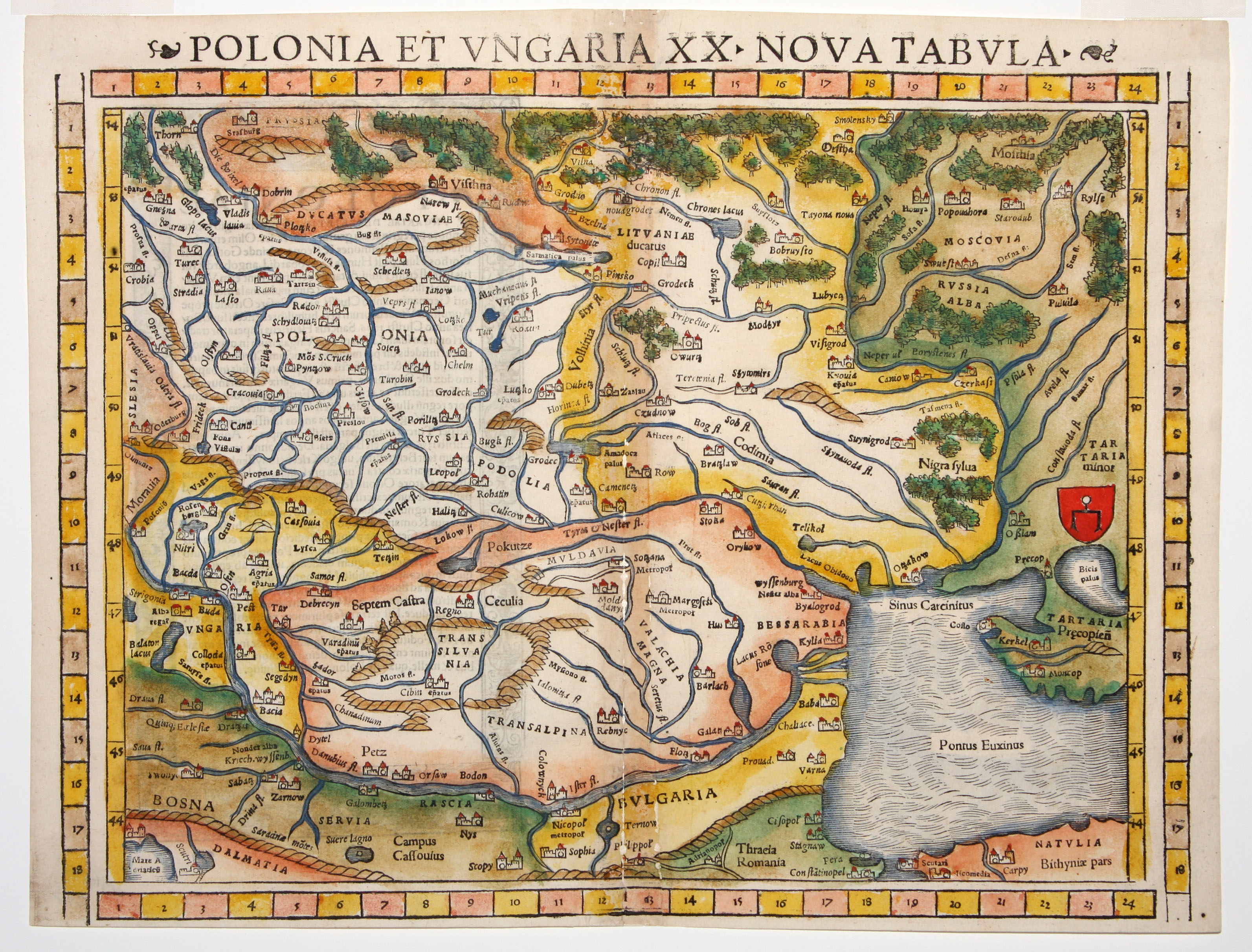 Polonia Et Ungaria XX Nova Tabula- Munster’s modern map of Poland and Hungary, from the rare 1552 Geographia edition, the only one to feature coordinate bars provided at top and bottom.